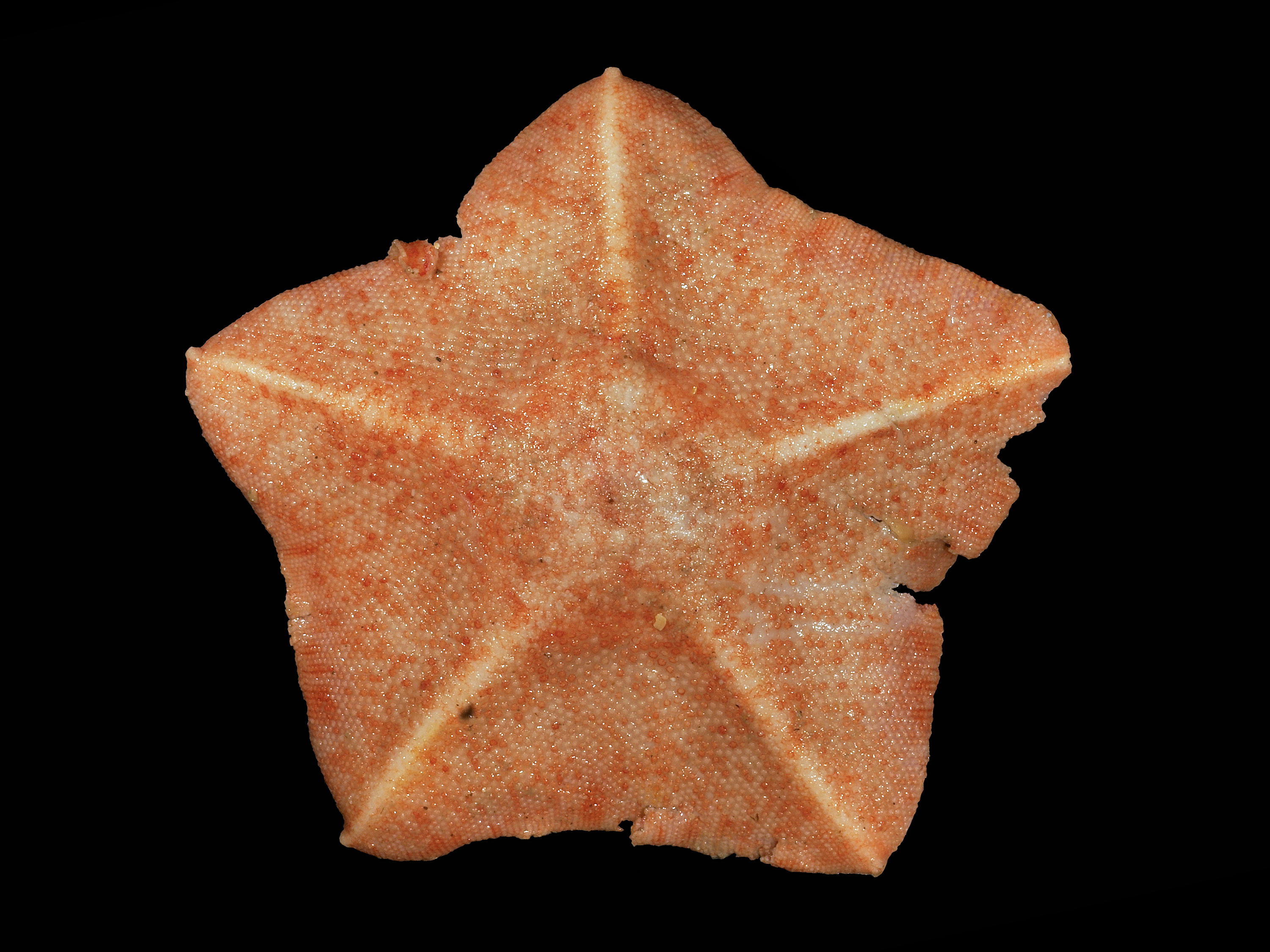 (Goose Foot Starfish) from the Celtic Sea, south west of Lundy.